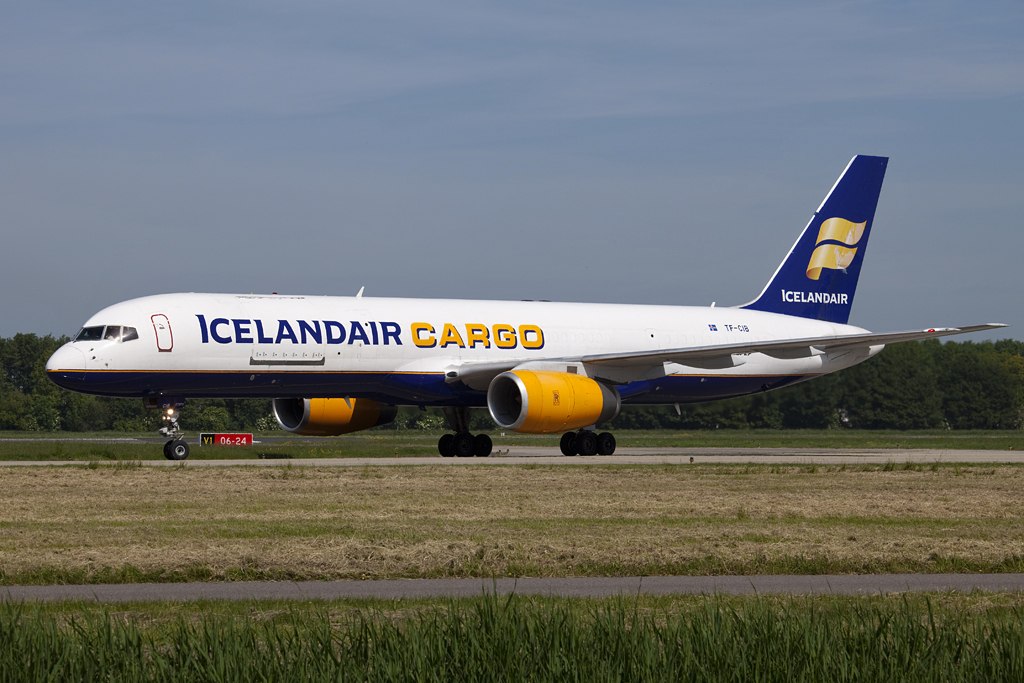 TF-CIB B757F Icelandair Cargo